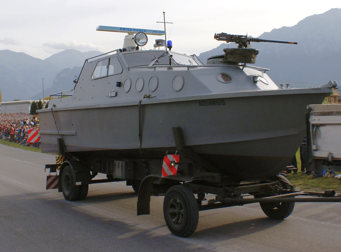 Swiss Army. Patrol boat 80 on trailer, used for border lake surveillance. Participating in the "Steel Parade" of the 2006 Army Days, Thun.